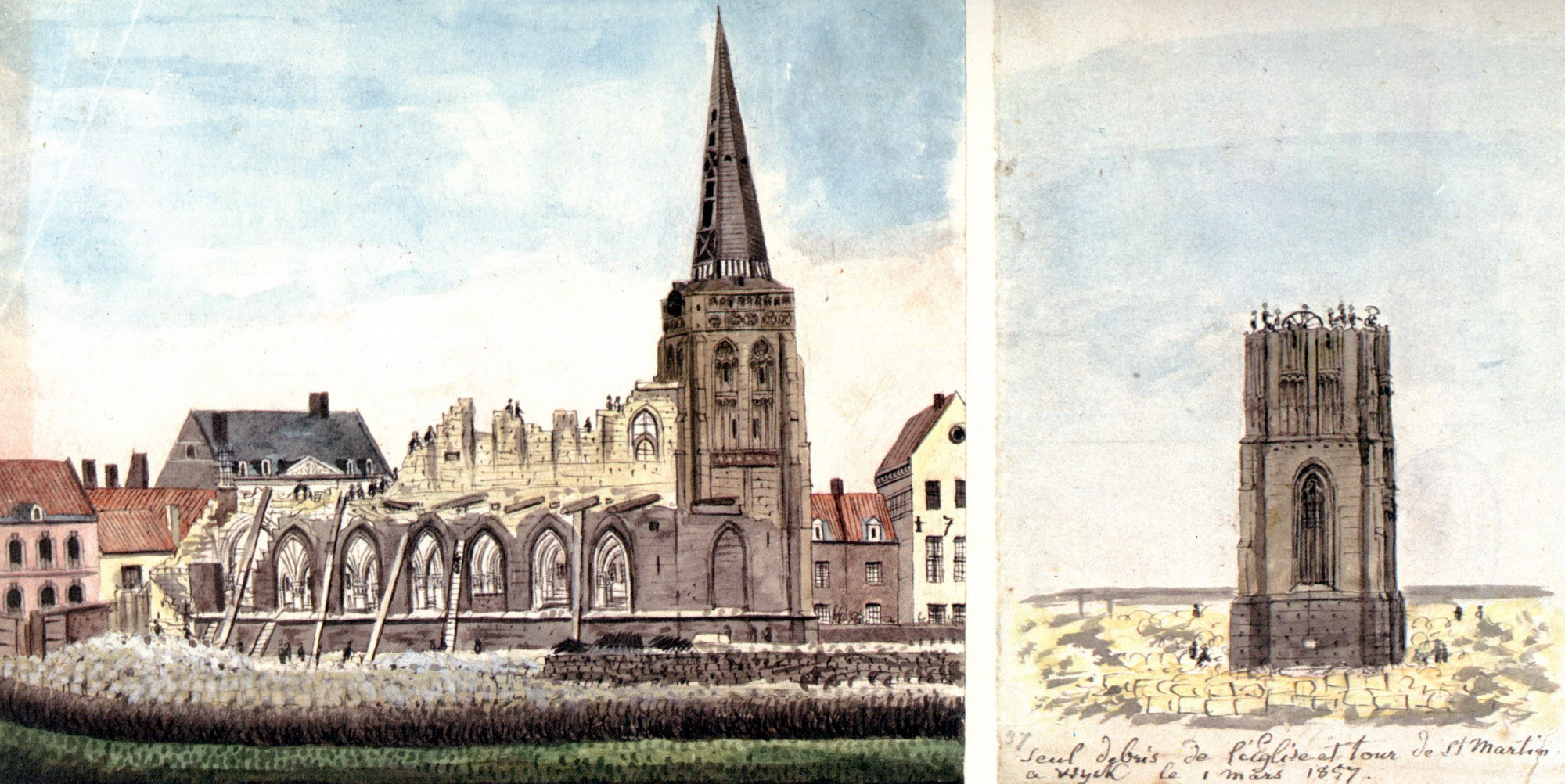 The demolishing of the old Saint Martin's Church in Maastricht-Wyck, the Netherlands. Two watercolour drawings by Philippus van Gulpen (±1855, 1857)